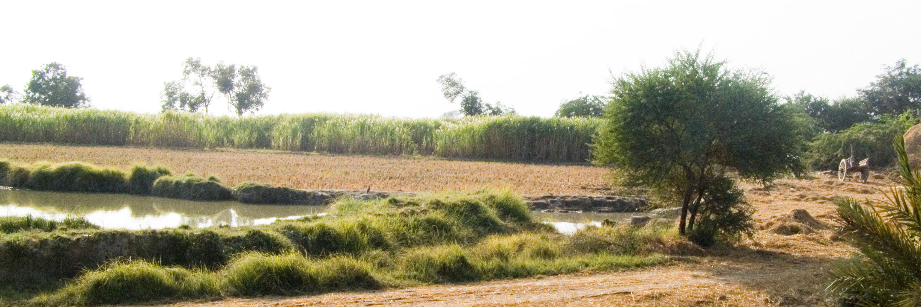 A view of a sugar cane field in the village Syed Matto Shah